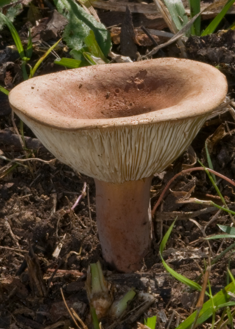 A fruit body of the milk mushroom Lactarius clarkeae Cleland. Specimen photographed in State Forest near Comboyne, New South Wales, Australia.